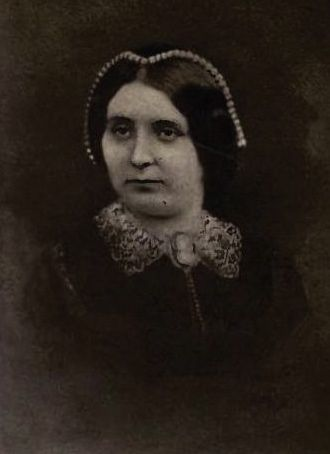 Matilda Caroline Allan (née Smith; 1828–1881), known as Lady Allan after 1871, by William Notman